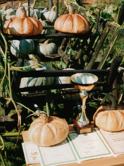 The Charters of the Festival in Nagydobos